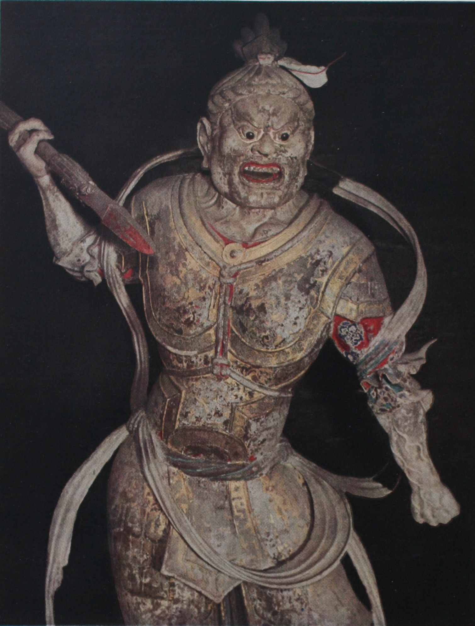 Vajra-dhara (Vajrapani, Shukongōshin), Coloured clay statue, Hokke-dō, Todaiji Temple, Nara, 8th century, 167cm height, 8th century, Photo before restoration on right hand finger.